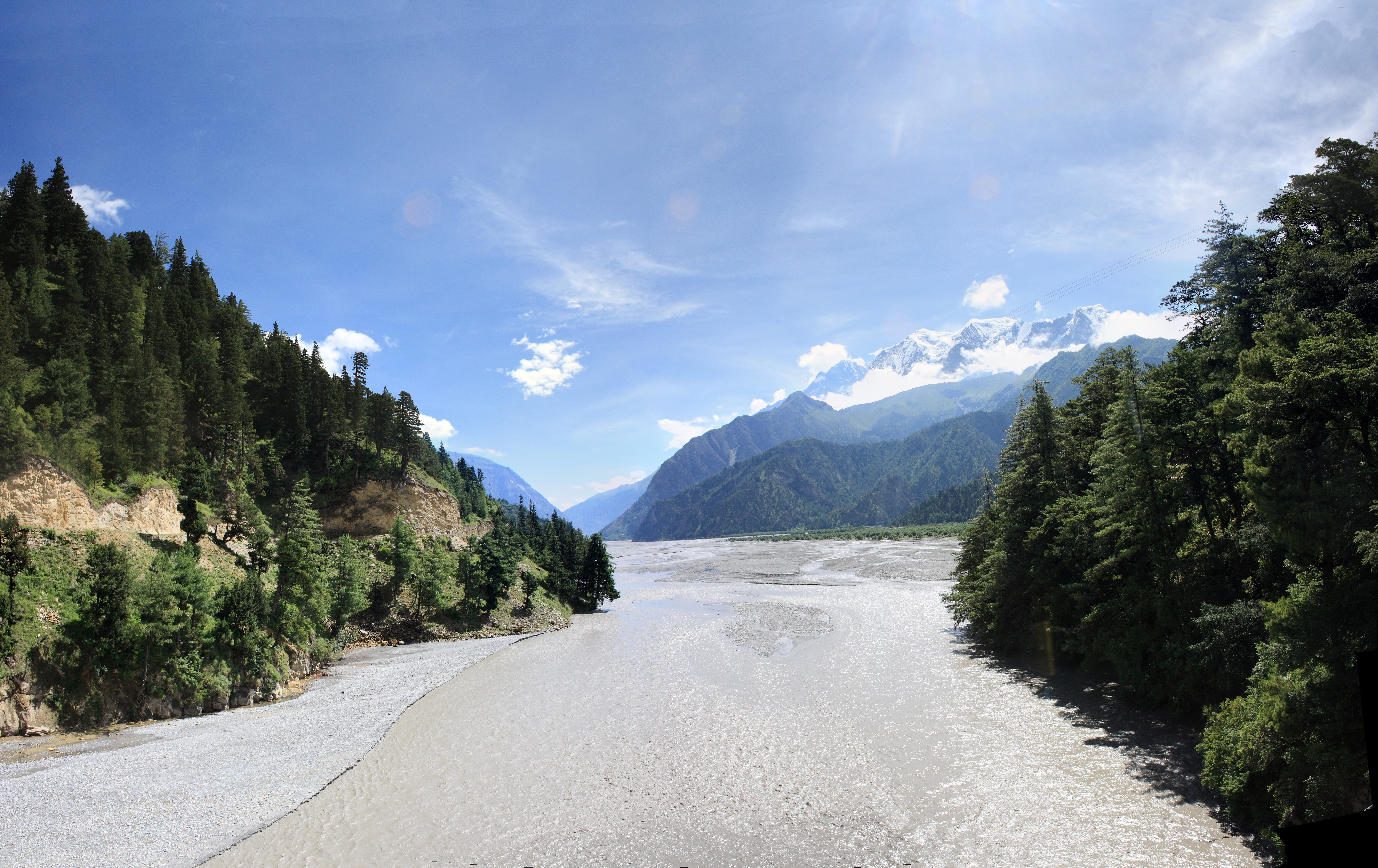 Gandaki River between the villages of Kalopani and Tukuche, Nepal. Taken from a pedestrian suspension bridge. Looking upstream. The snowcovered peaks in the background belong to Nilgiri Himal.